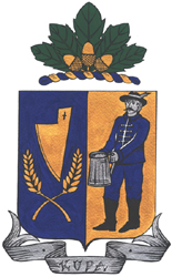 Coat of arms of Kupa, Hungary